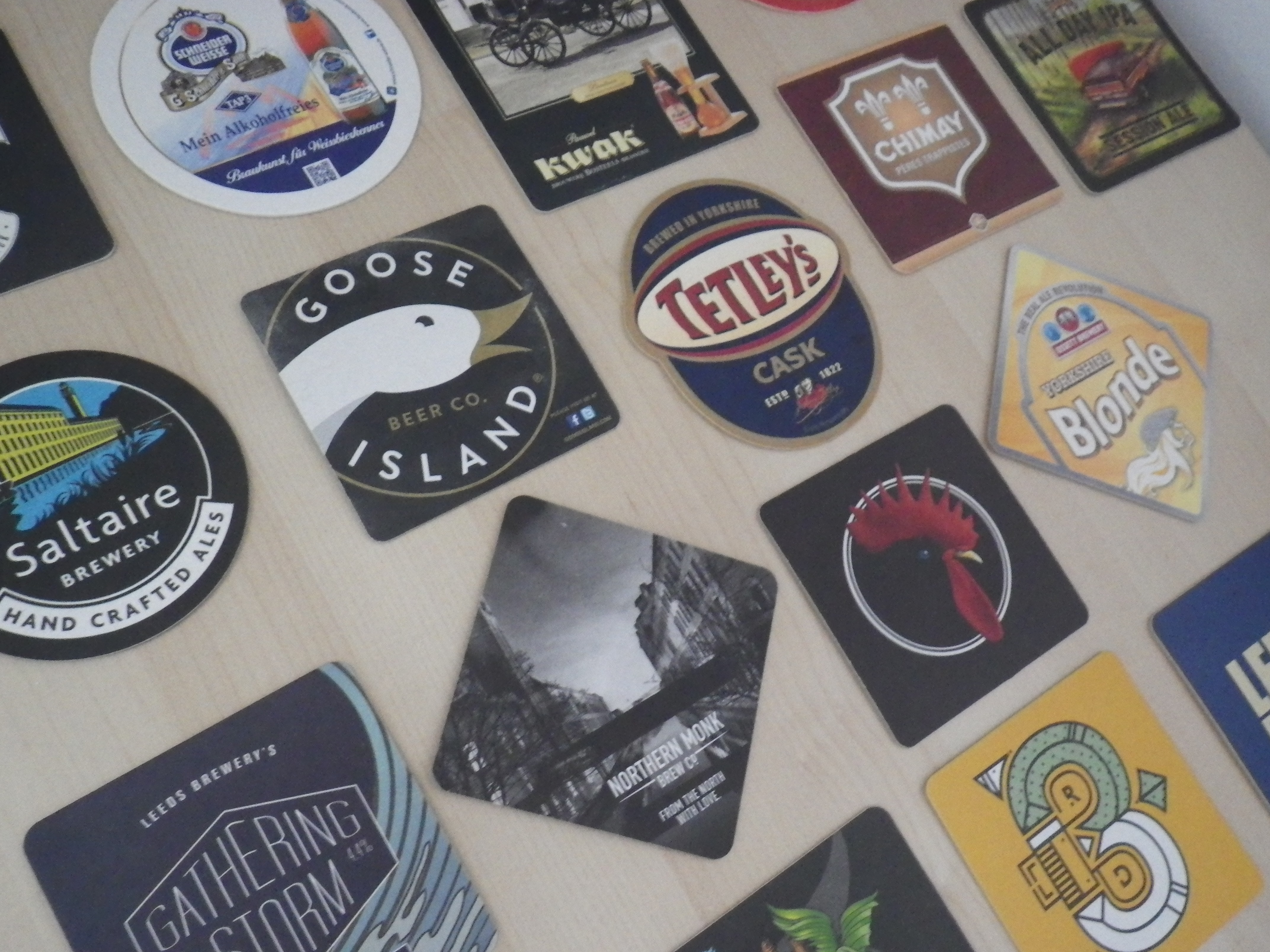 A collection of beermats displayed on a wall. The majority of the mats displayed are from beers brewed in the West Yorkshire area.